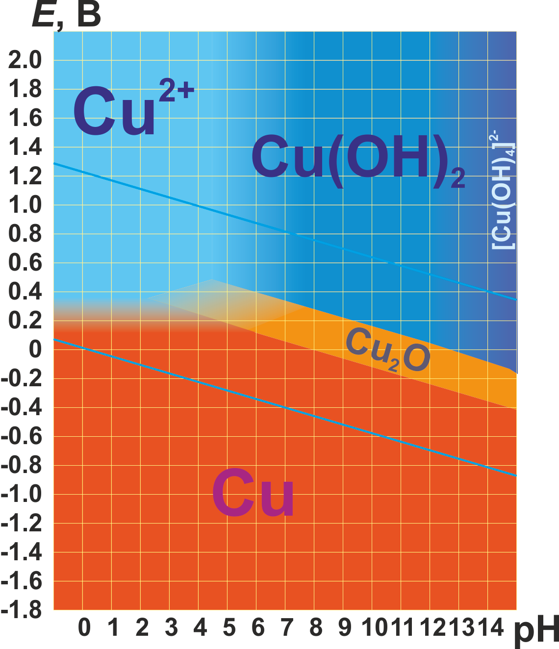 Pourbaix diagram for copper. The colours are relevant to the real forms. Fuzzy borders depend on concentration, sharp borders do not depend. Cyan lines denote the borders of water stability region. The diagram is plotted basing on the data from: Handbook for Chemist, vol. 3, Chemistry Publishers, pp. 786-790 (in Russian)